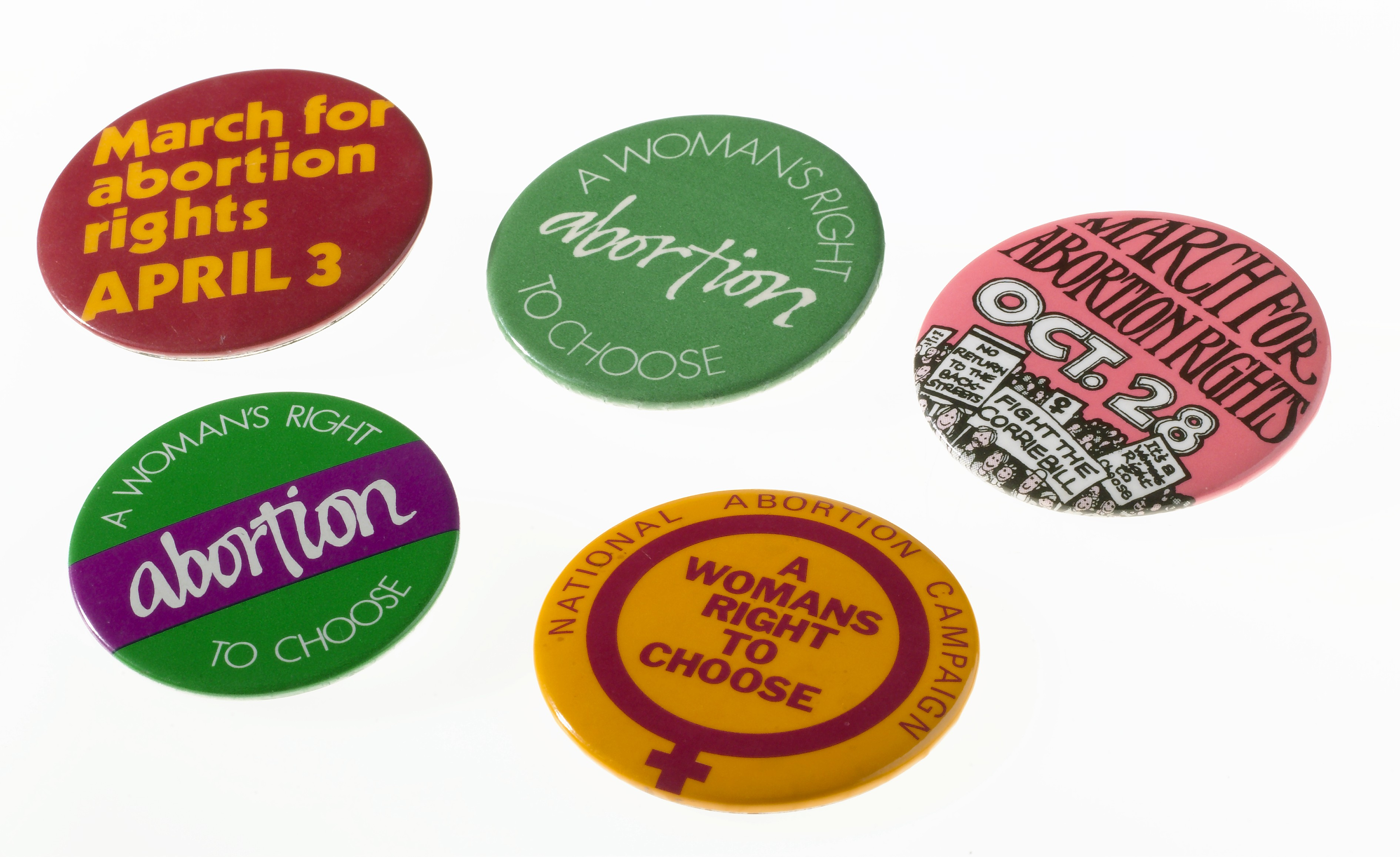 These badges protest a woman’s right to choose to have an abortion. The National Abortion Campaign (NAC) was set up in 1975. It protested against proposed changes to the 1967 Abortion Act in Britain. Its members saw abortion becoming the campaigning rights issue it continues to be today. The Act stated an abortion must be performed by a registered medical practitioner. The Act also stated two medical practitioners must agree the abortion is necessary if there is a risk to the physical or mental health of the mother or if the child would be severely mentally or physically handicapped. The law was amended in 1990 to prevent abortions after 24 weeks of pregnancy. A foetus is considered viable after 24 weeks. This means it can survive outside the womb. There are now calls to lower the legal limits further. However, it is ruled that if continuing the pregnancy risks the life of the mother then an abortion can take place any time. The NAC merged with the Abortion Law Reform Association (ALRA) to form Abortion Rights in 2003. maker: Unknown maker Place made: United Kingdom Medical Photographic Library Keywords: badge